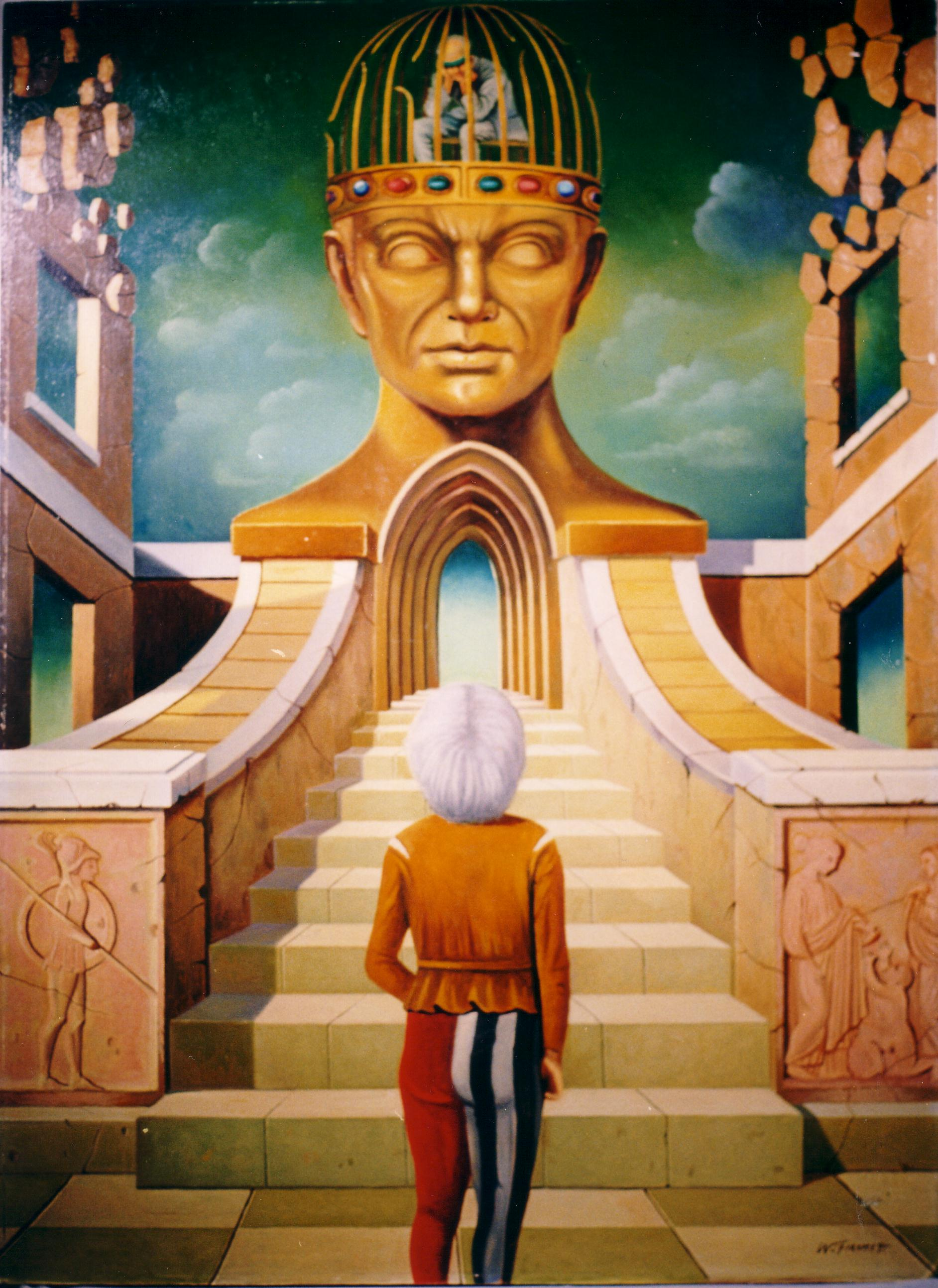 Work of the Italian painter William Girometti, title: "The dynamics of power", 1975, oil on canvas, cm. 74x100 - owned by his daughter.